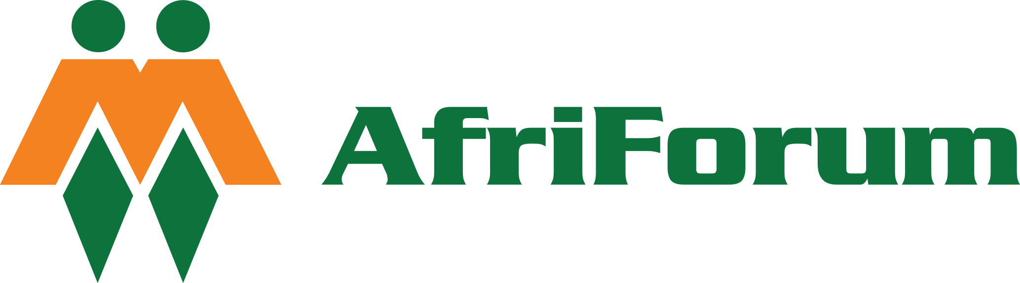 The Logo used by the human rights orginisation AfriForum